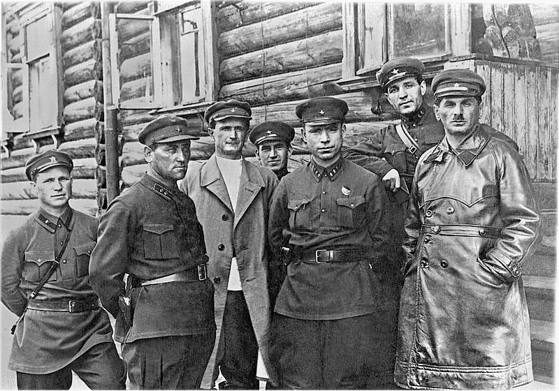 OGPU-chiefs responsible for construction of the White Sea - Baltic Canal, Right: Naftaly Frenkel, Center: Matvei Berman (head of the Gulag from 1932-1939), Left: Afanasev (Head of the southern part of BelBaltLag)